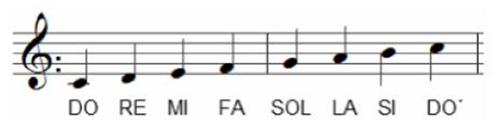 Musical scale in C major.